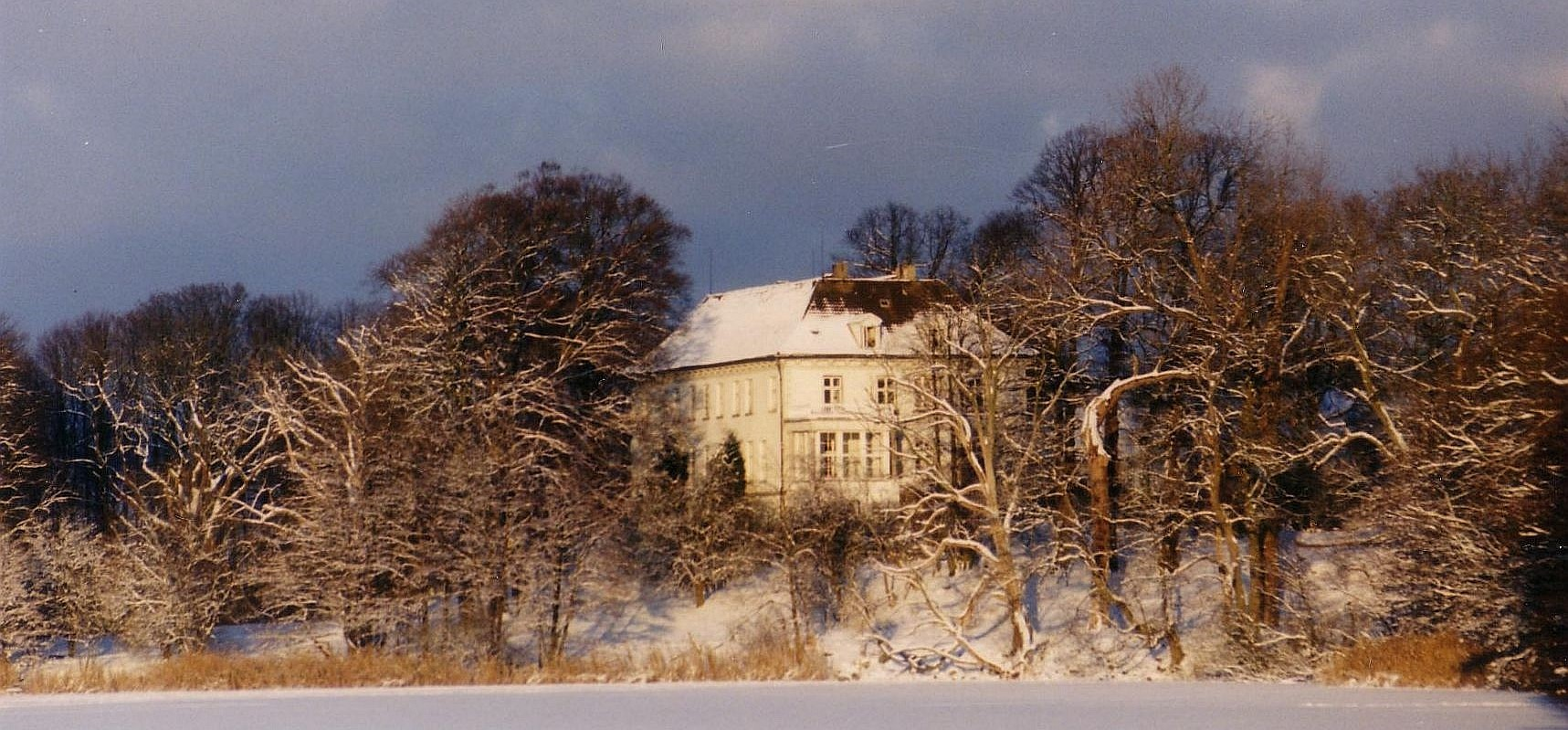 Manor 'Bothkamp' in Schleswig-Holstein, Germany, in winter 1996, view from the South-West in the evening sun